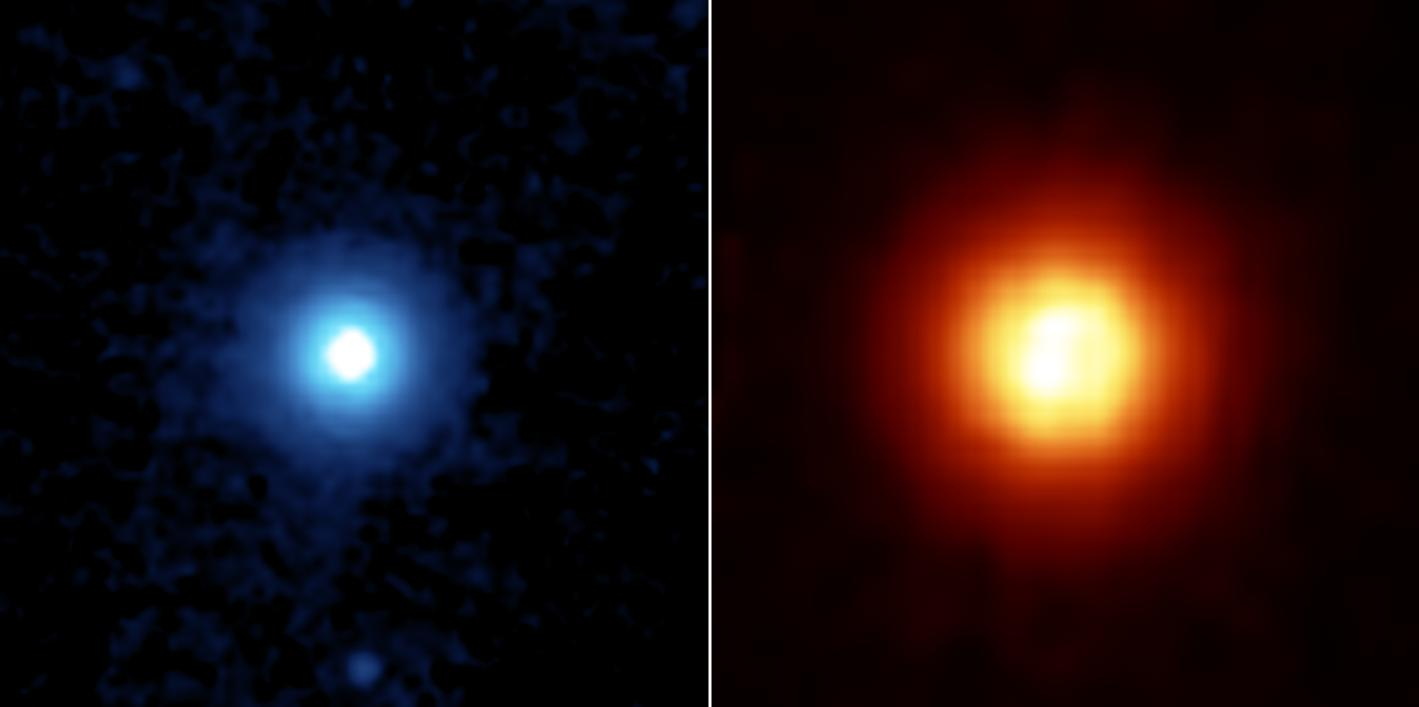 NASA's Spitzer Space Telescope recently captured this image of the star Vega, located 25 light years away in the constellation Lyra. Spitzer was able to detect the heat radiation from the cloud of dust around the star and found that the debris disc is much larger than previously thought. This side by side comparison, taken by Spitzer's multiband imaging photometer, shows the warm infrared glows from dust particles orbiting the star. The left image was taken at λ=24µm; the right at λ=70µm